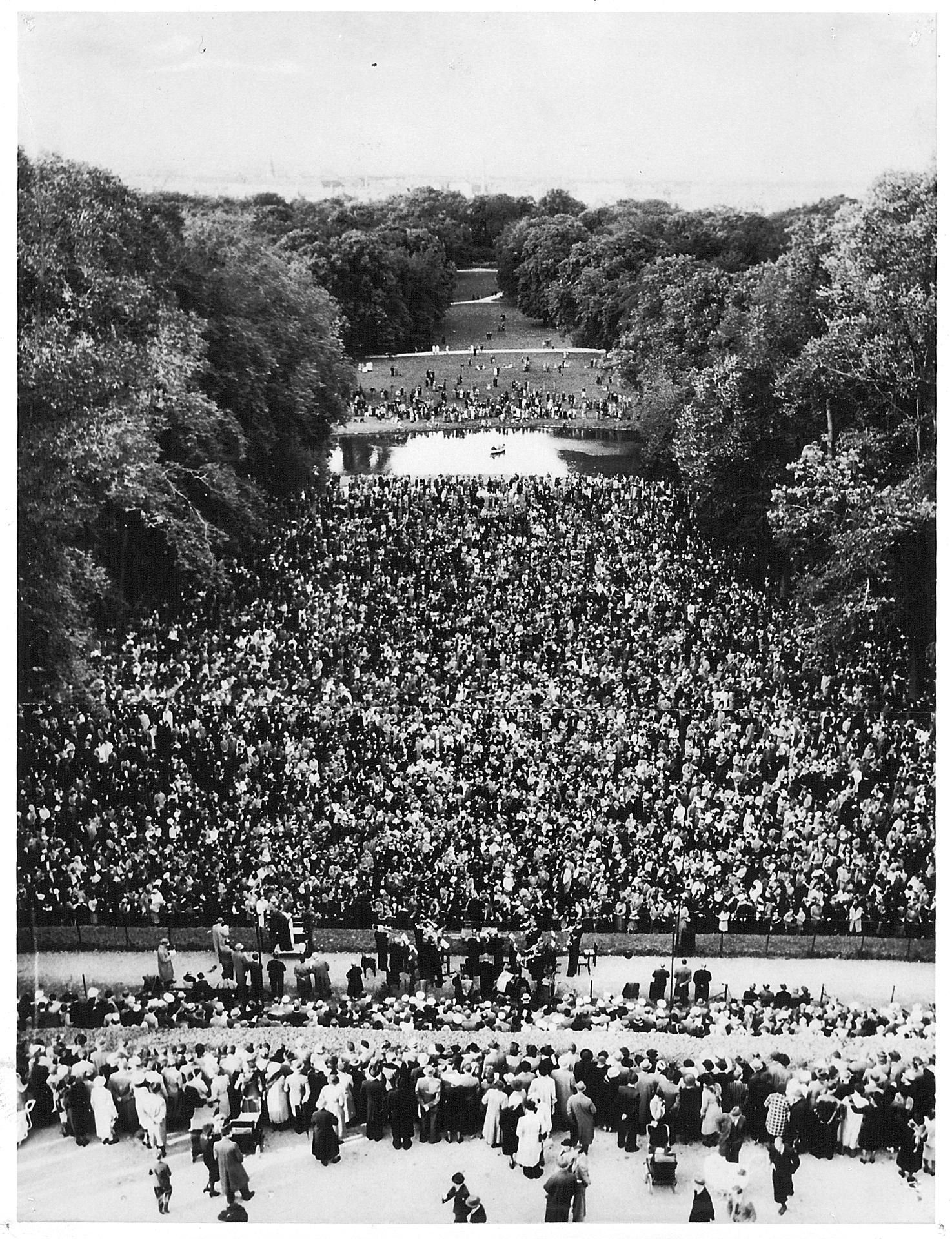 Fotograf: Tage Christensen Se flere billeder her: Download and rights: More about The Museum of Danish Resistance (Frihedsmuseet)